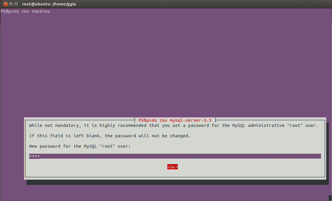 Screenshot of root password during setup of MySQL server.